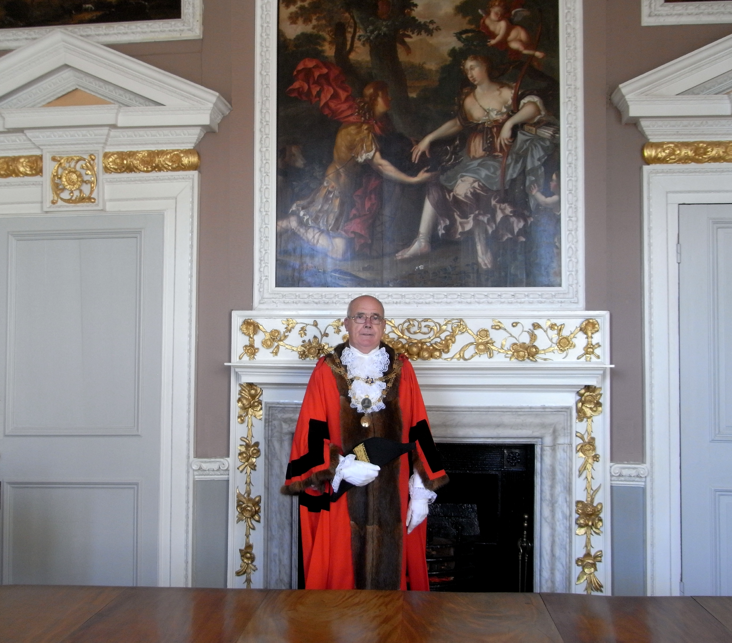 David Goodman, Mayor of South Molton, Devon, in the Mayor's Parlour, Town Hall, before setting off for the Harvest Festival church service in South Molton Church, Sunday 27 September 2015.